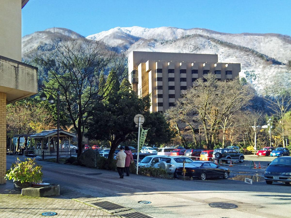 Snow covered mountains seen from Unazuki Park in Unazuki Onsen, Kurobe, Toyama, Japan